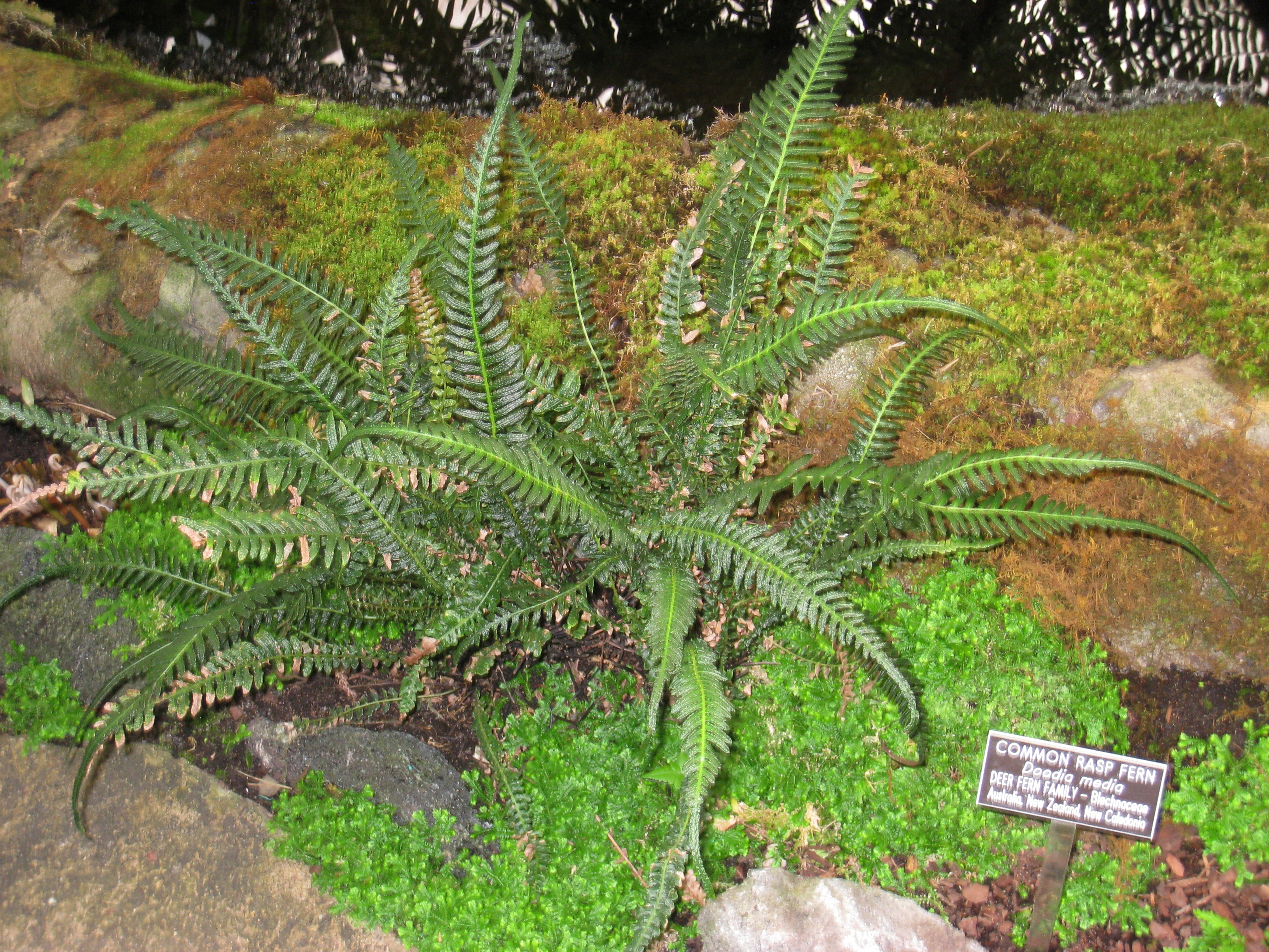 Doodia media, in the United States Botanic Garden, Washington, DC, USA.